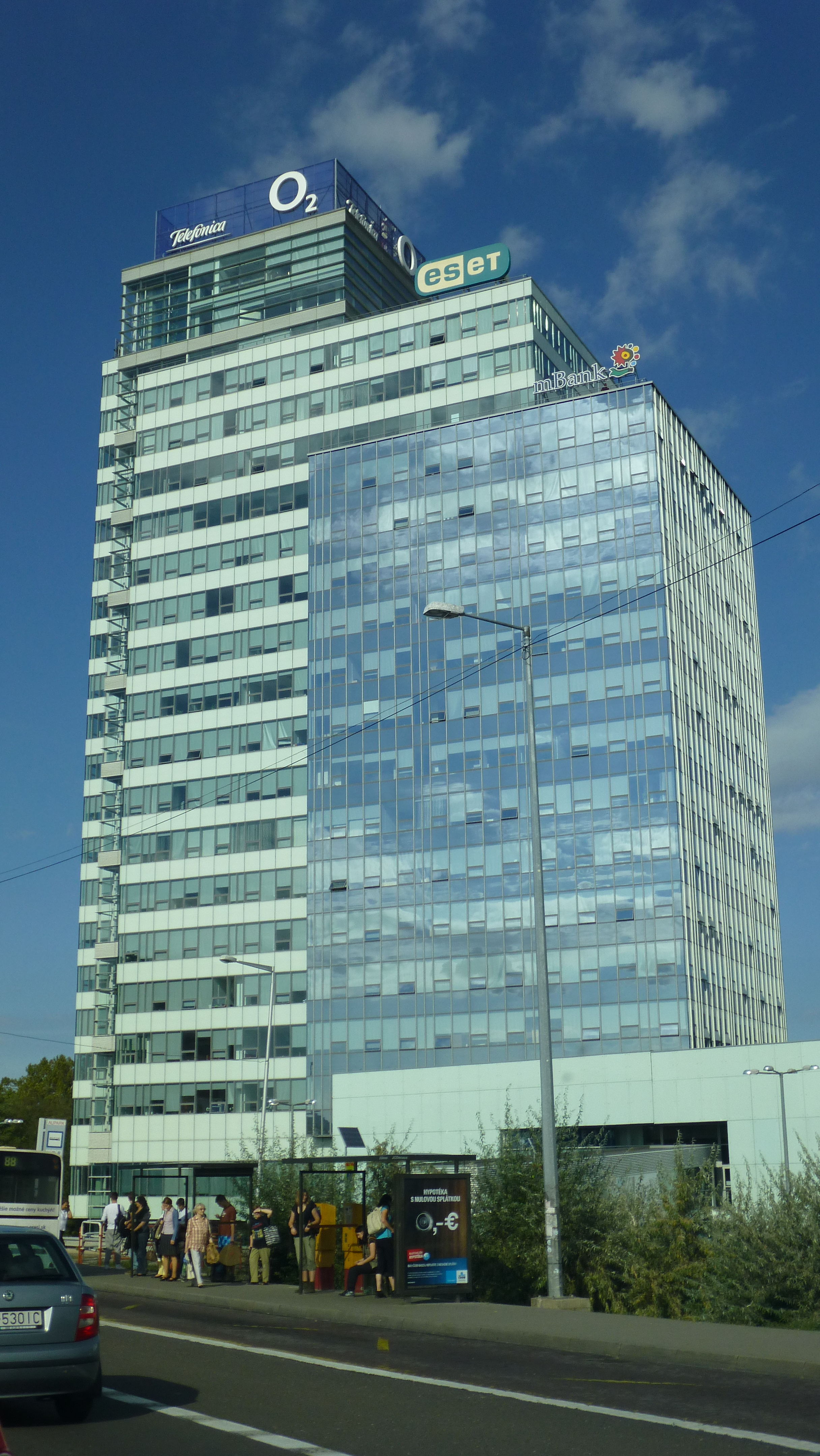 AUPARK TOWER